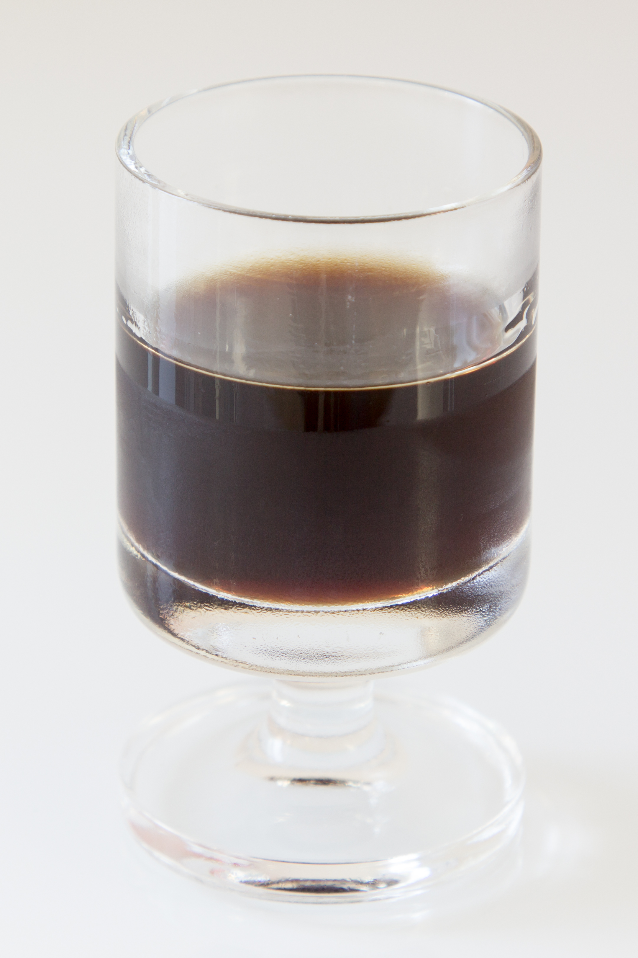 Liquorice Liqueur "Dirty Harry" (21,5% ABV, manufactured by Berentzen-Gruppe AG, Germany) in a stemmed shot glass